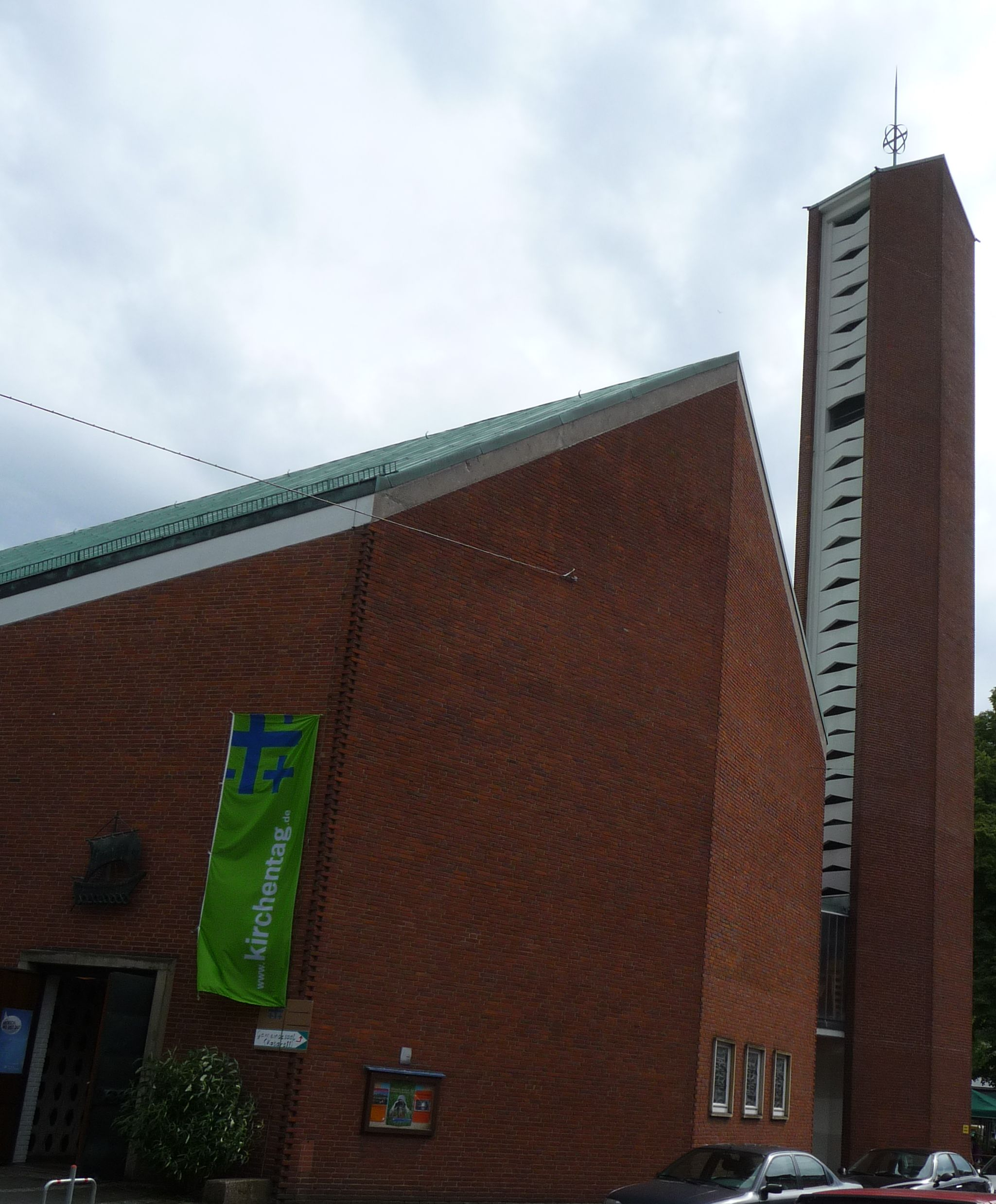 Church in Bremen, Germany